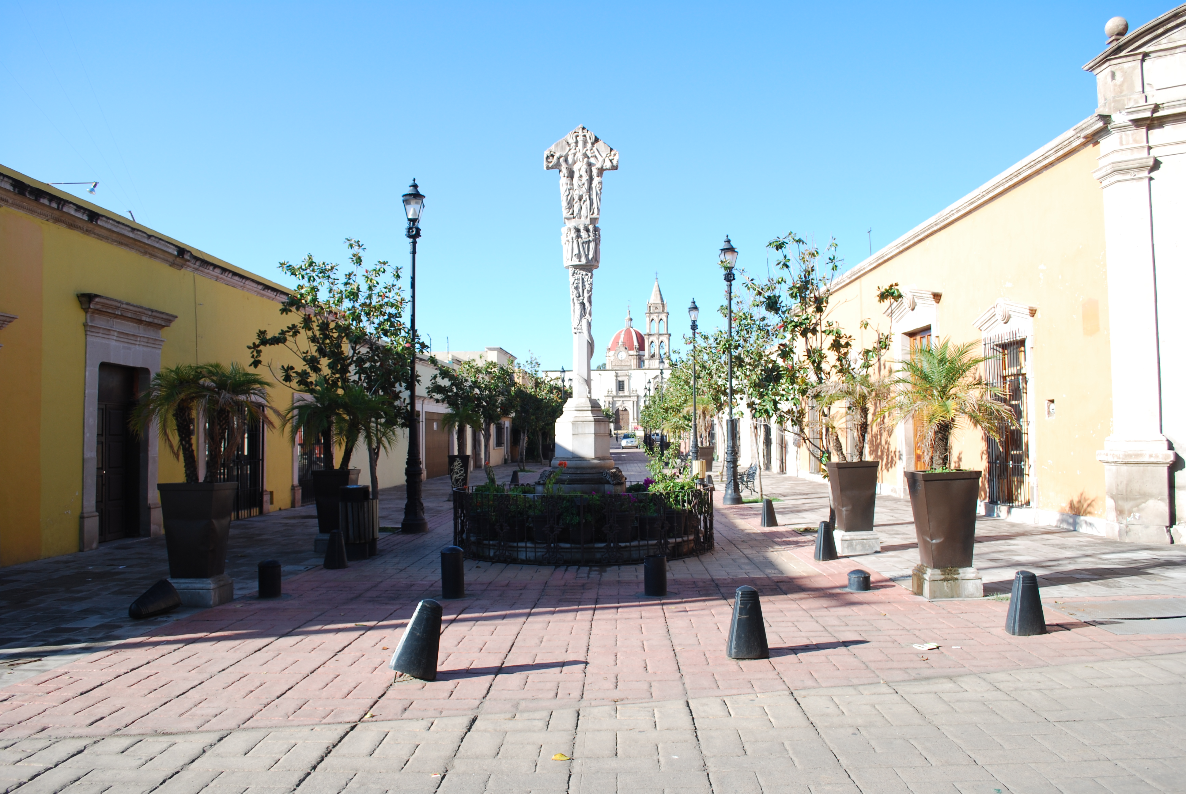 Analco Street in Barrio Analco, Victoria de Durango